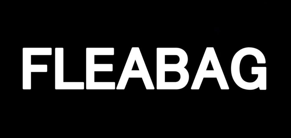 Fleabag titlecard